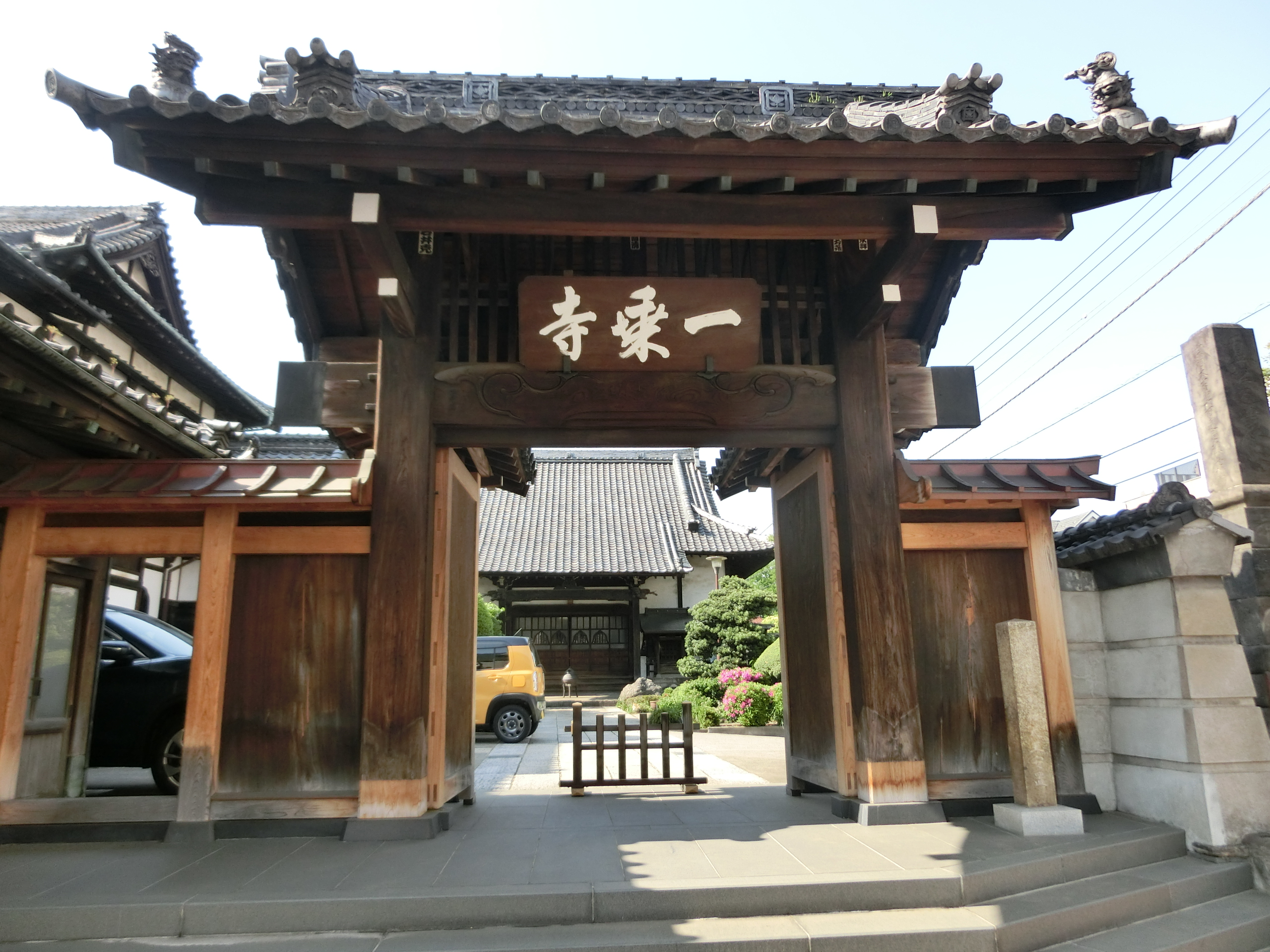 Ichijo-ji (Taito)